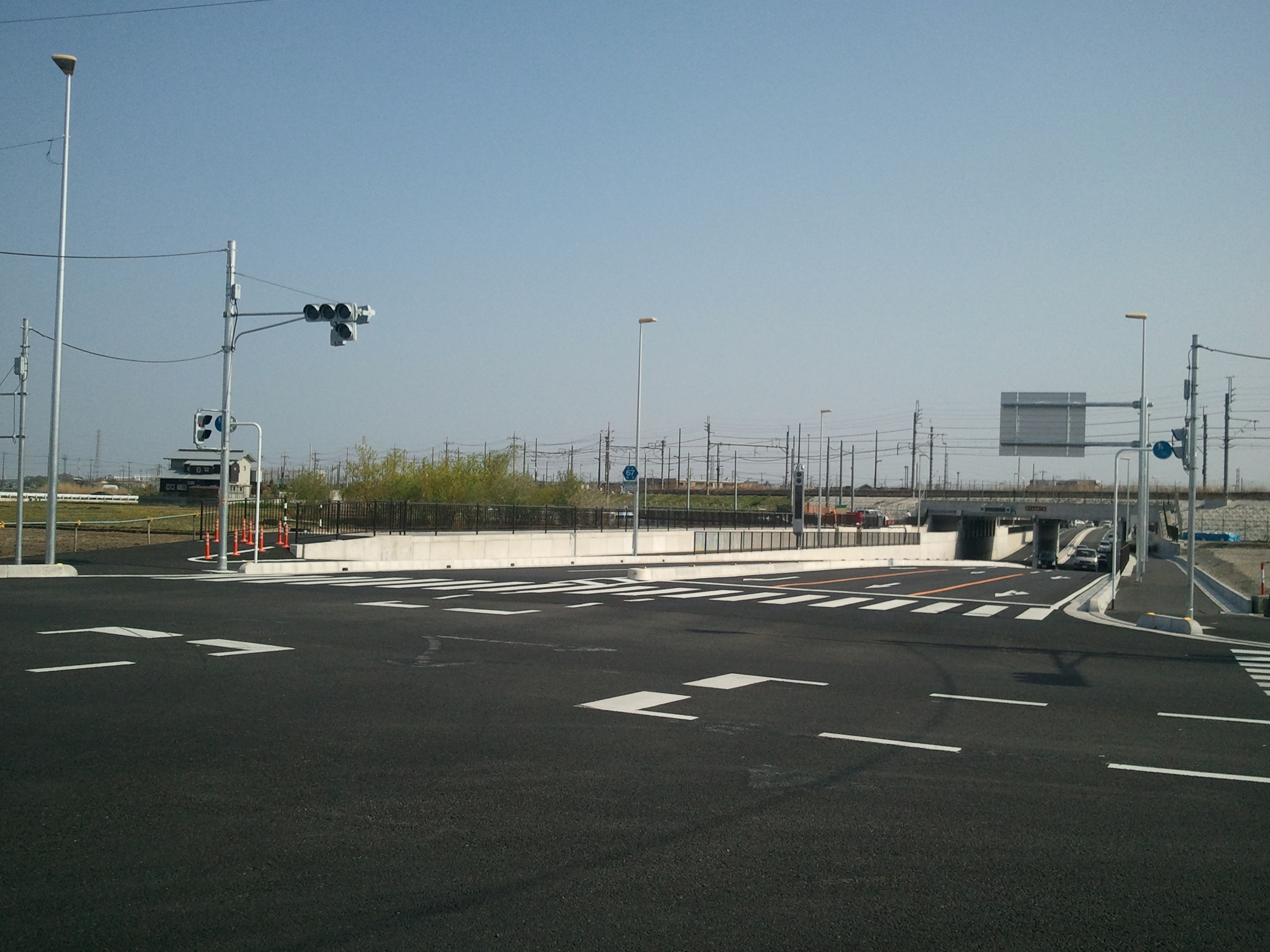 Yoshikawa-Minami underpass